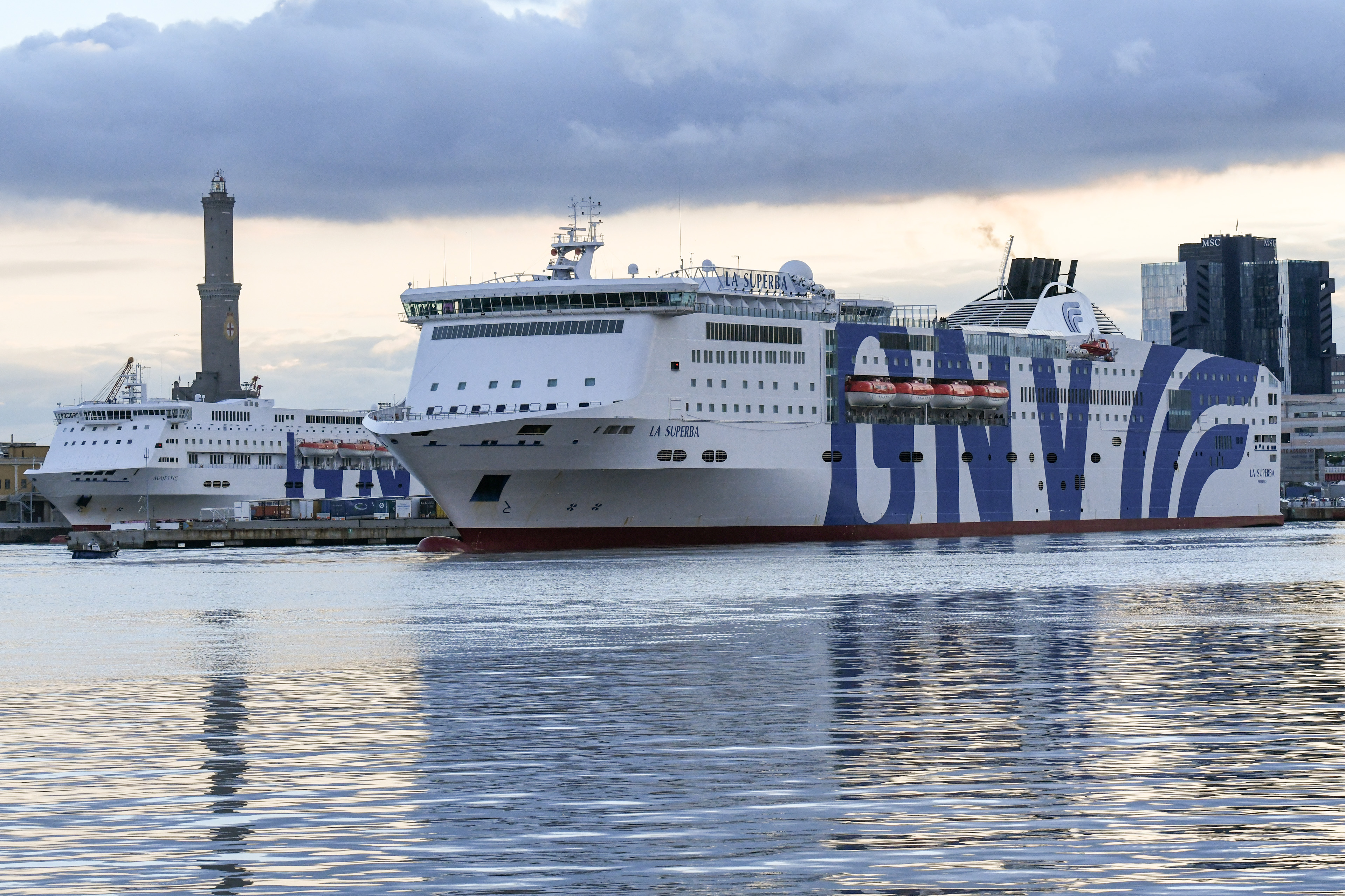 GNV Ferry 'La Superba' at Genoa